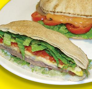 FOTO DE SANDUÍCHE TIPO "BEIRUTE"